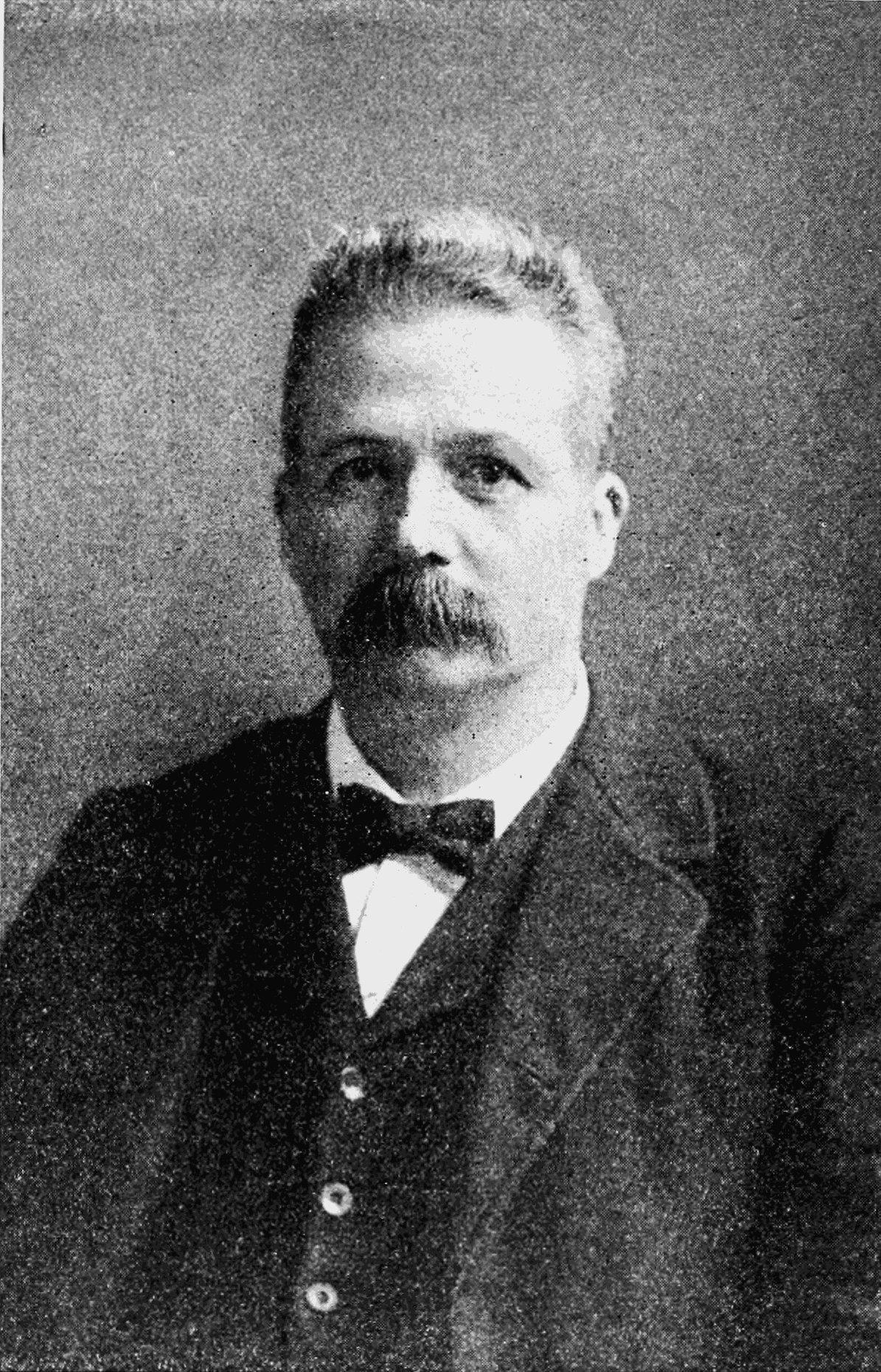 Clinton Hart Merriam 1855-1942